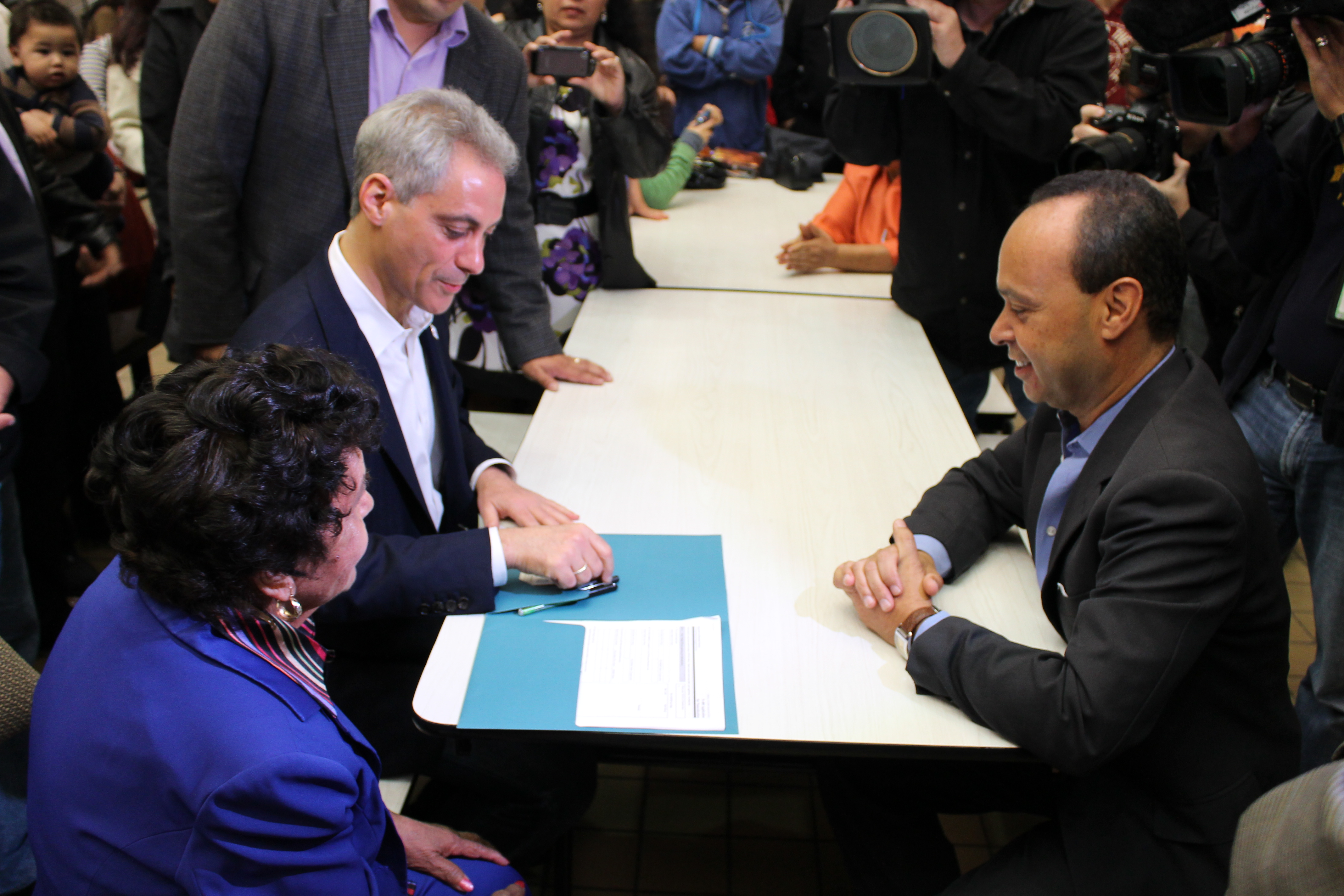 Mayor Rahm Emanuel assists a 90 year-old great-great-grandmother at Congressman Luis V. Gutierrez' monthly citizenship workshop.